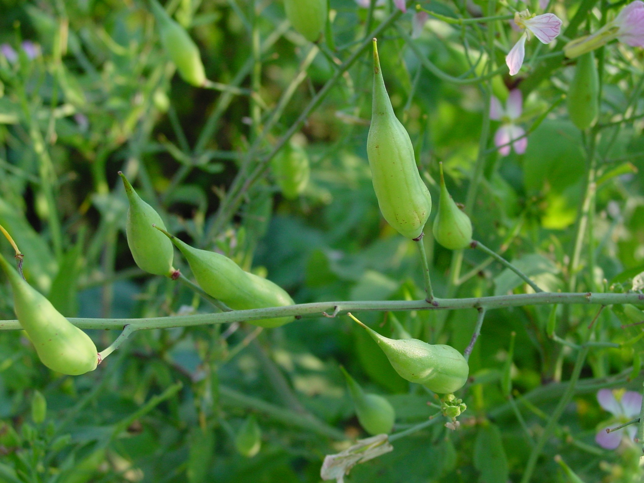 Siliques of Raphanus sativus, Rettich-Schoten